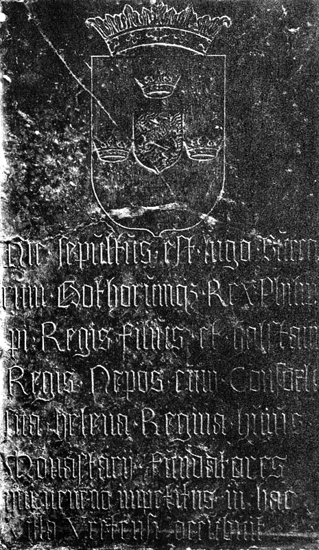 Gravestone of King Ingi the Younger of Sweden (from 16th century) - it is misplaced in a different part of the church than where the royal graves have been located, and it incorrectly mentions a Queen Helen as his wife, though it has been assumed that another Helen (a later Swedish princess who was Queen of Denmark from 1156) is intended as buried here. Place: Vreta Church, Linköping, Sweden